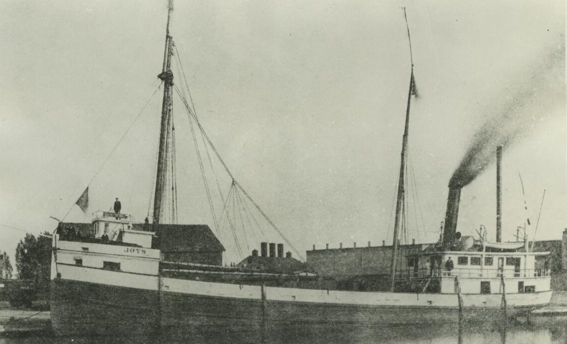 The steam barge Joys underway